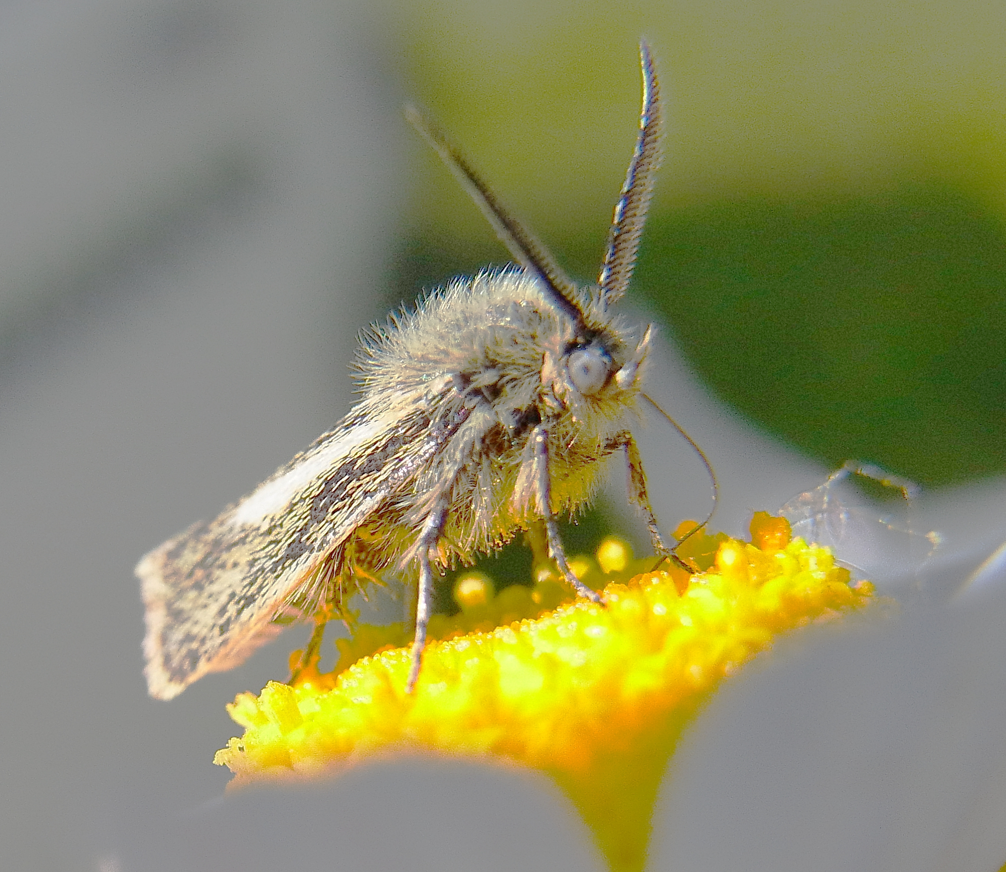 Brachodes appendiculata from Southern Hungary, near Kelebia at 2012-05-26